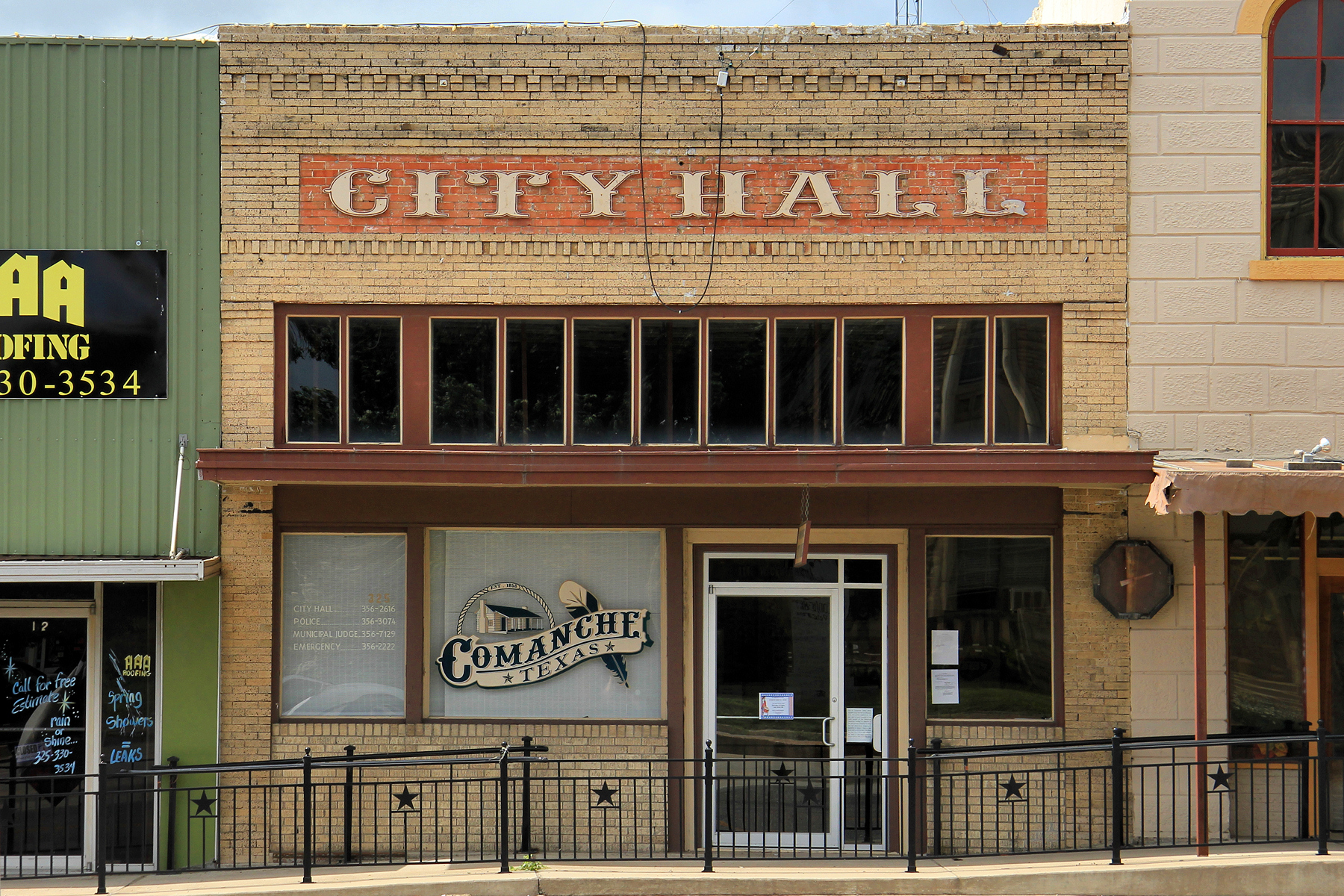 Comanche, Texas City Hall